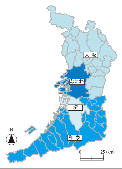 This map shows the area of ｌicense plates in Osaka, Japan.